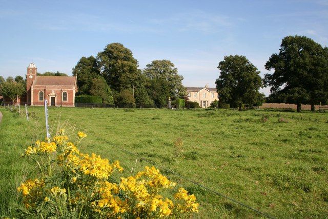 Stainfield. St Andrew's church and Stainfield Hall seen from the parkland. Undulations in the ground mark the site of Stainfield Priory, a house for Benedictine nuns founded c1154 by Henry de Percy and dissolved in 1536.